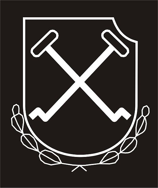 I SS Panzer Corps insignia made by myself